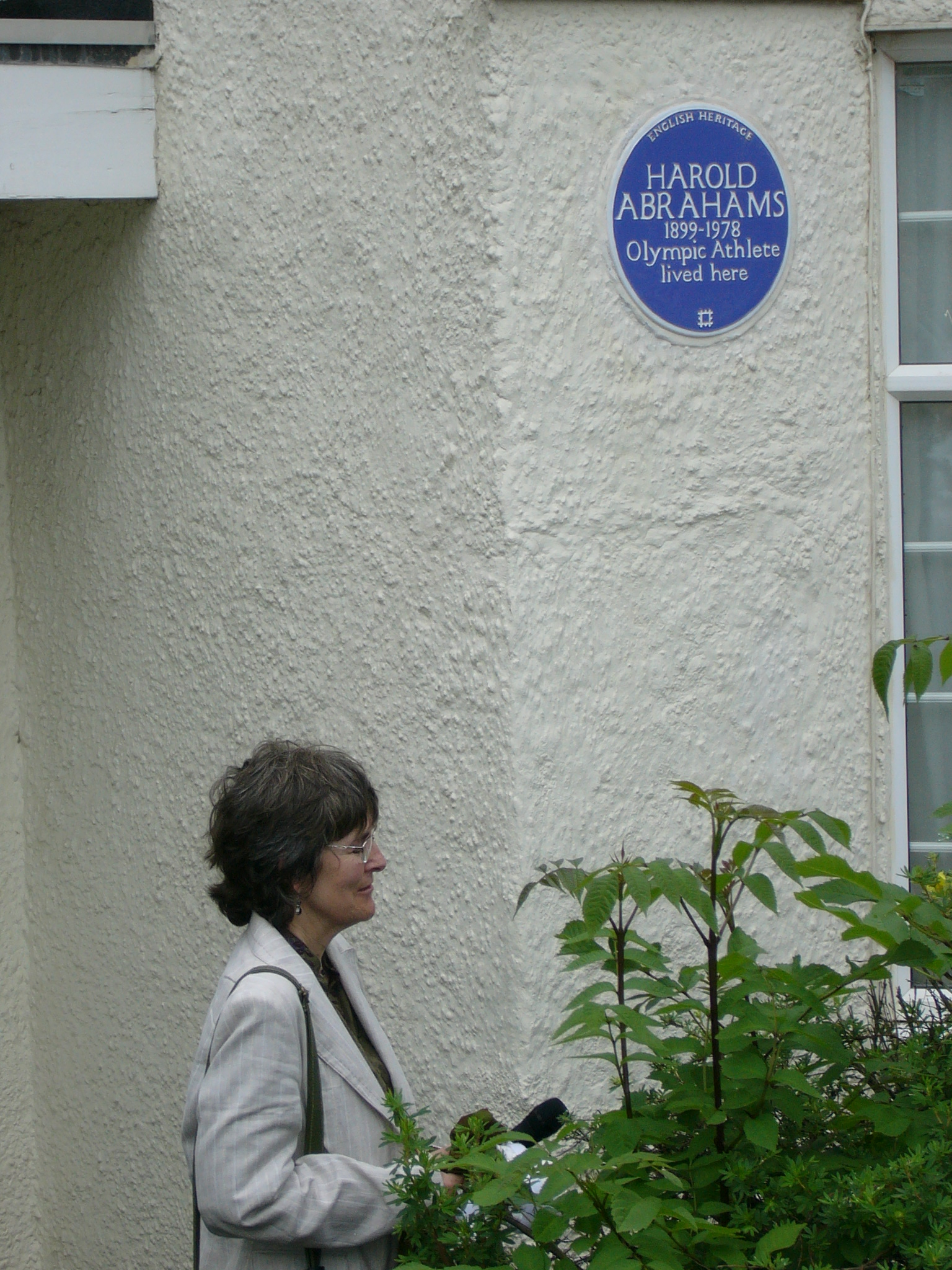 Sue Pottle unveiling blue plaque dedicated to her father Harold Abrahams, Olympic gold medallist at Hodford Lodge, 2 Hodford Road, Golders Green, London NW11 8NP, London Borough of Barnet. Taken by me Casper Pottle, 17 May 2007